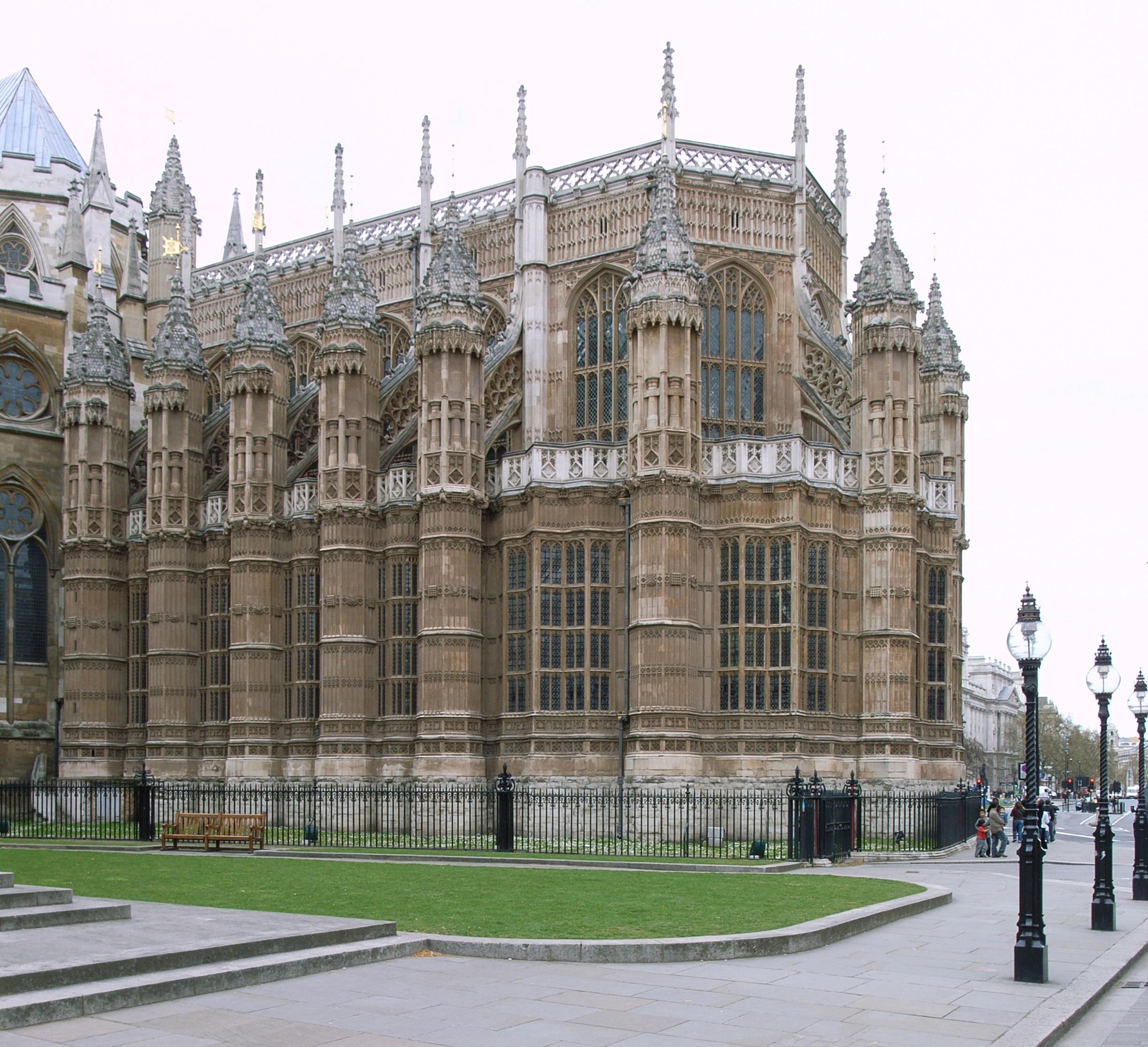 The Lady Chapel / Henry VII's chapel (1503-12), Westminster Abbey